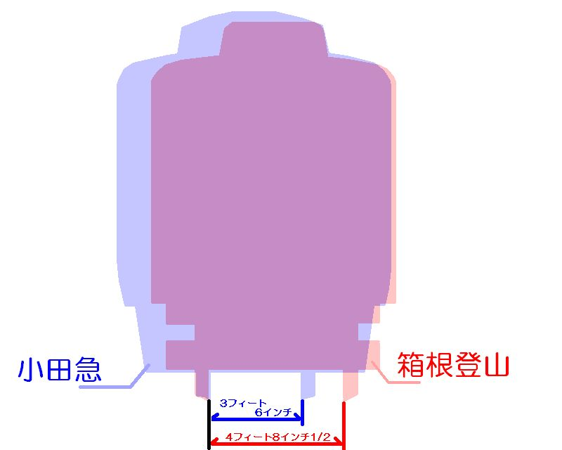 Difference of vehicle standard of Odakyu Electric Railway and Hakone Tozan Railway. The vehicle and the pink color of Odakyu Electric Railway light blue are vehicles of Hakone Tozan Railway.